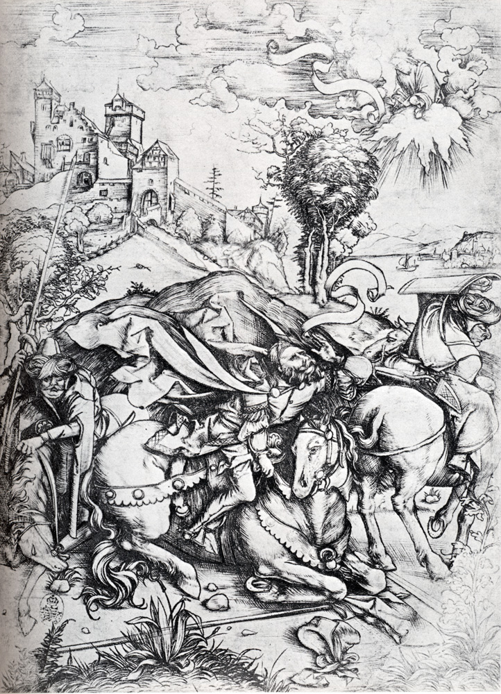 Сonversion of Paul